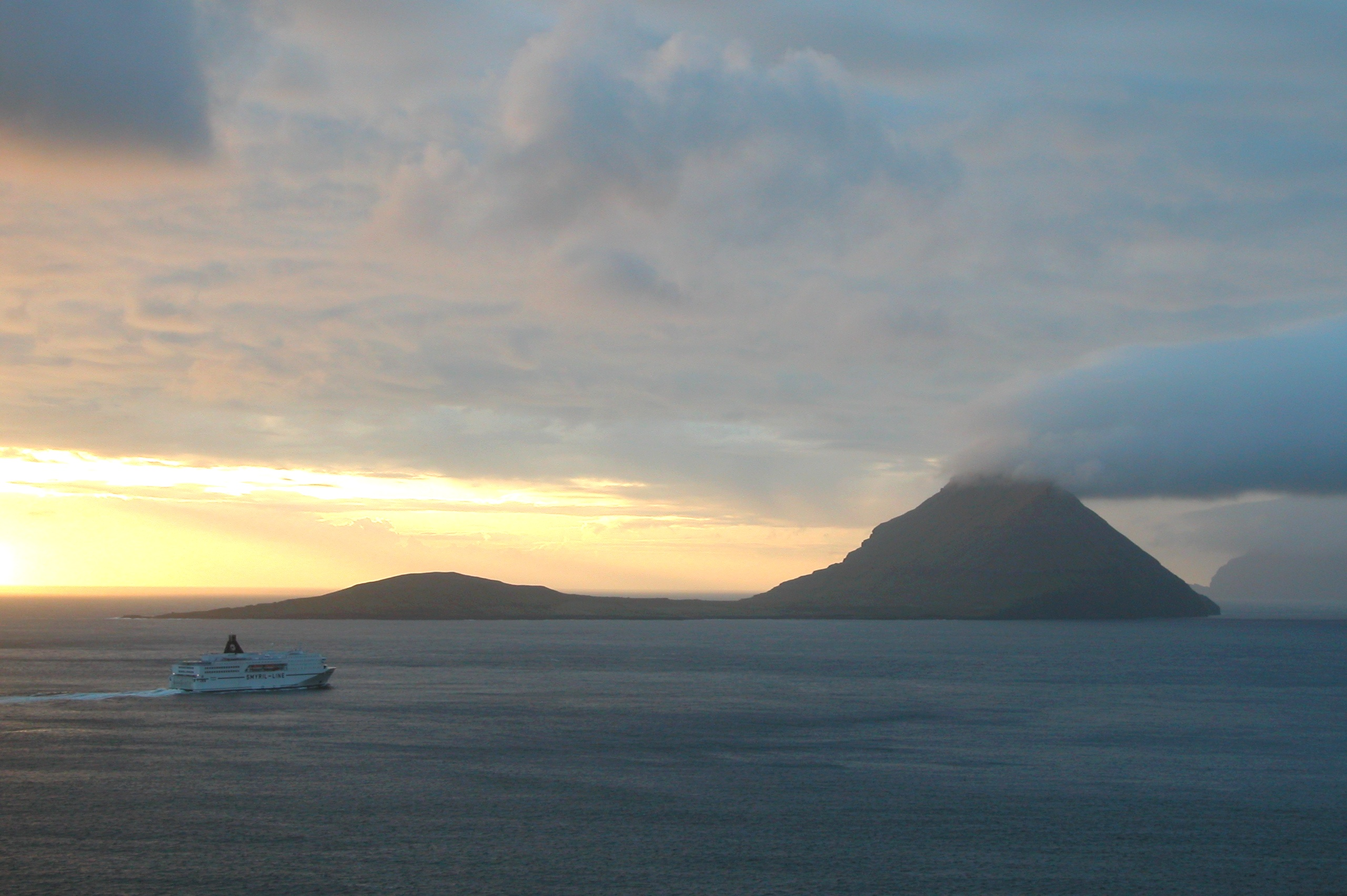 The ferry Norröna on her way to Iceland, passing Koltur, Faroe Islands